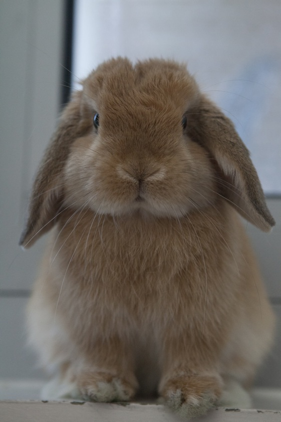 Pet name:QQ Summer, was born on 26 January 2011, England. Breed: miniature lop. The Miniature Lop was recognised by the British Rabbit Council in 1994 (Lop Breed-No.8), with a maximum weight of 1.6kg. It is the smallest of the Lop eared breeds.